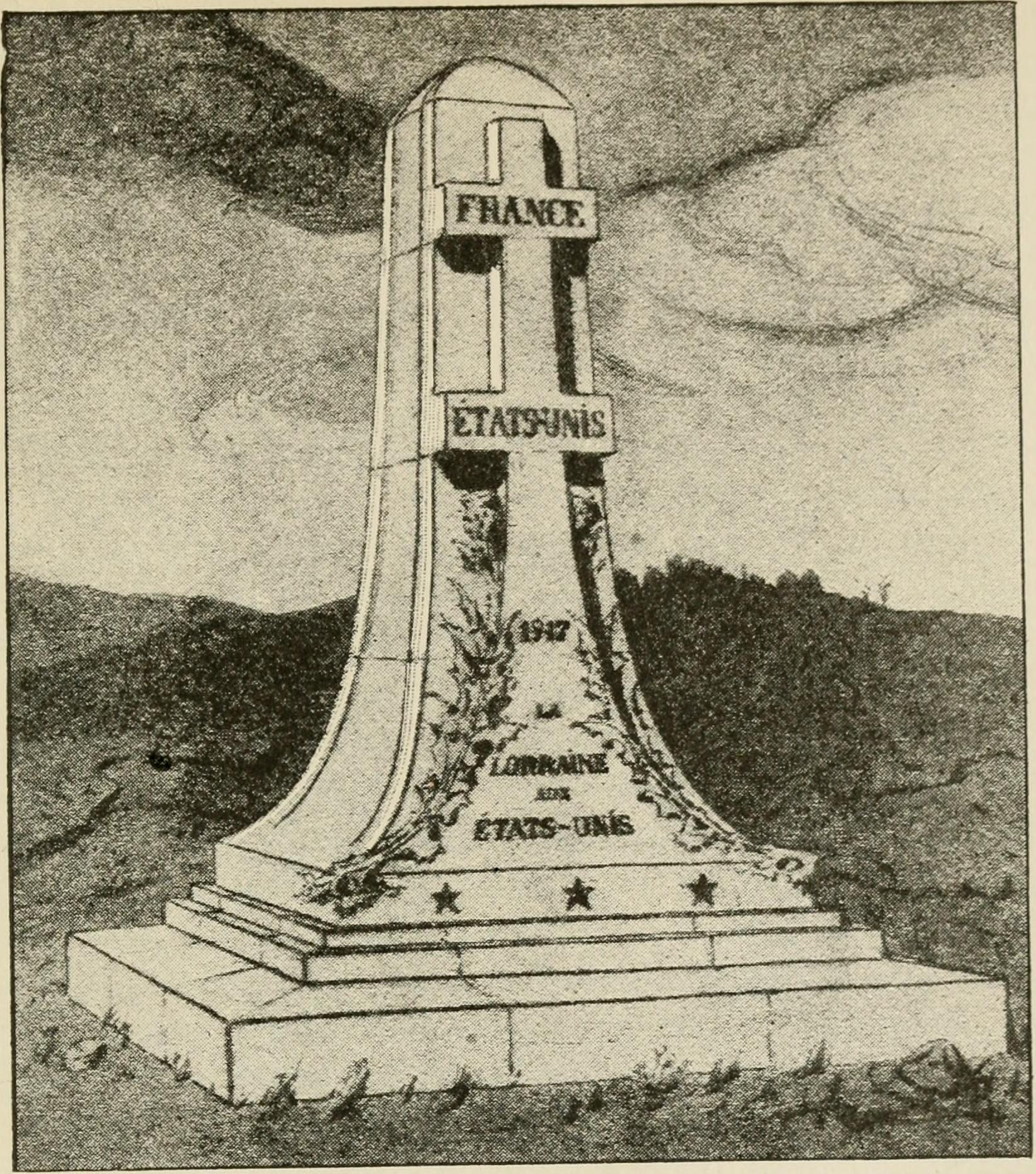 Title: The Literary digest history of the world war, compiled from original and contemporary sources: American, British, French, German, and others Year: 1919 (1910s) Authors: Halsey, Francis W. (Francis Whiting), 1851-1919, comp Subjects: World War, 1914-1918 Publisher: New York, London, Funk & Wagnalls Company Text Appearing Before Image: V—368 FOCHS GREAT VICTORIES Text Appearing After Image: LORRAINES TRIBUTE TO AMERICANS Monument erected by popular subscription to three Americans,who were the first to give their lives for the Entente cause They were told exactly where various corps headquarterswere, where each division-commander could be found, andhad their choice of time for making trips to scenes of activi-ties. All this was done three hours before the opening shotwas fired.*^ At the end of the conference the officer said: Gentlemen,it is now midnight; in one hour our artillery begins andat 5 our infantry starts. Just at 1 oclock, when it wasraining hard, thousands of guns began to speak. Five min-utes to 5 came, then four minutes to 5, and then barragewith explosions so fast that one could not distinguish the 6 Cable dispatch from Ruynioud G. Carroll to The Suu (New York). ?,G0 ON THE WESTERN FRONT individual voice of any gun; shells were shriekingtriumphantly. At one minute of 5 came a pause and at 5men started, many thousands all bound north. Smaller gunswere still